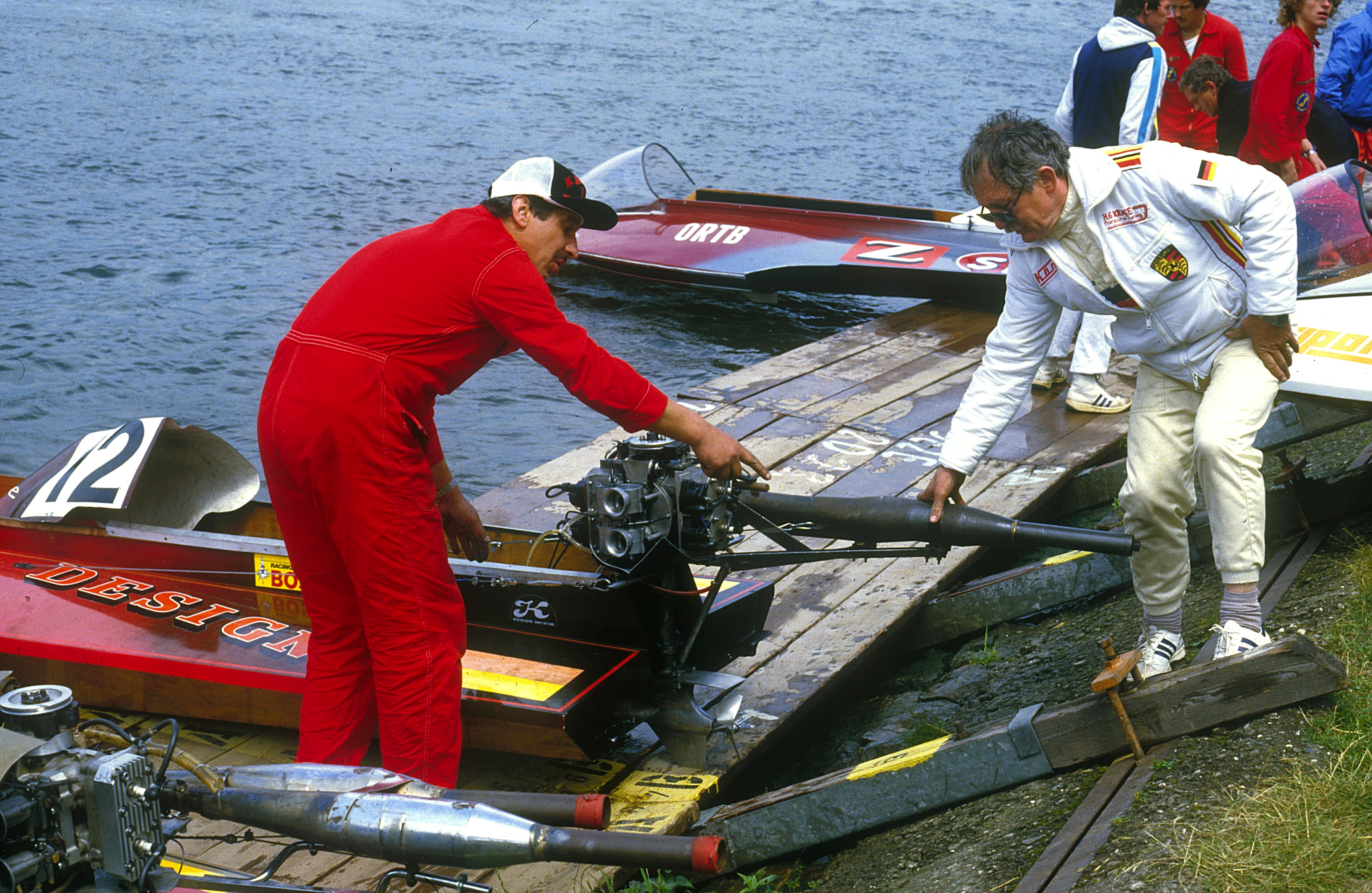 Hans-Georg Krage (right, with dressed in white) was one of the best German racing boat drivers. Three times he was world champion in different categories. Krage died in 2005 when he was nearly 77 years old.